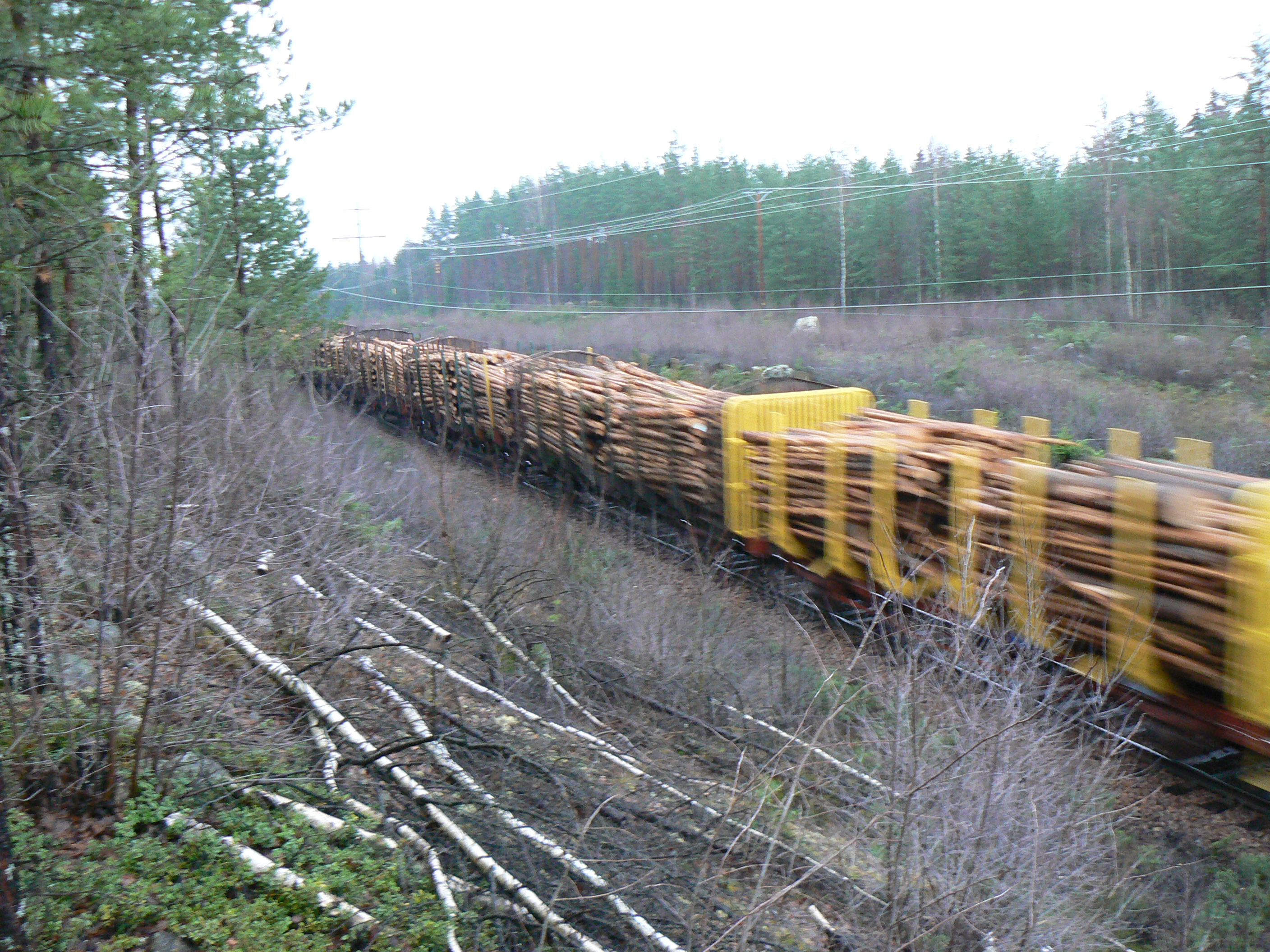 Timber train between Falun and Hofors in Sweden. Photo by Skvattram 2006-11-25.